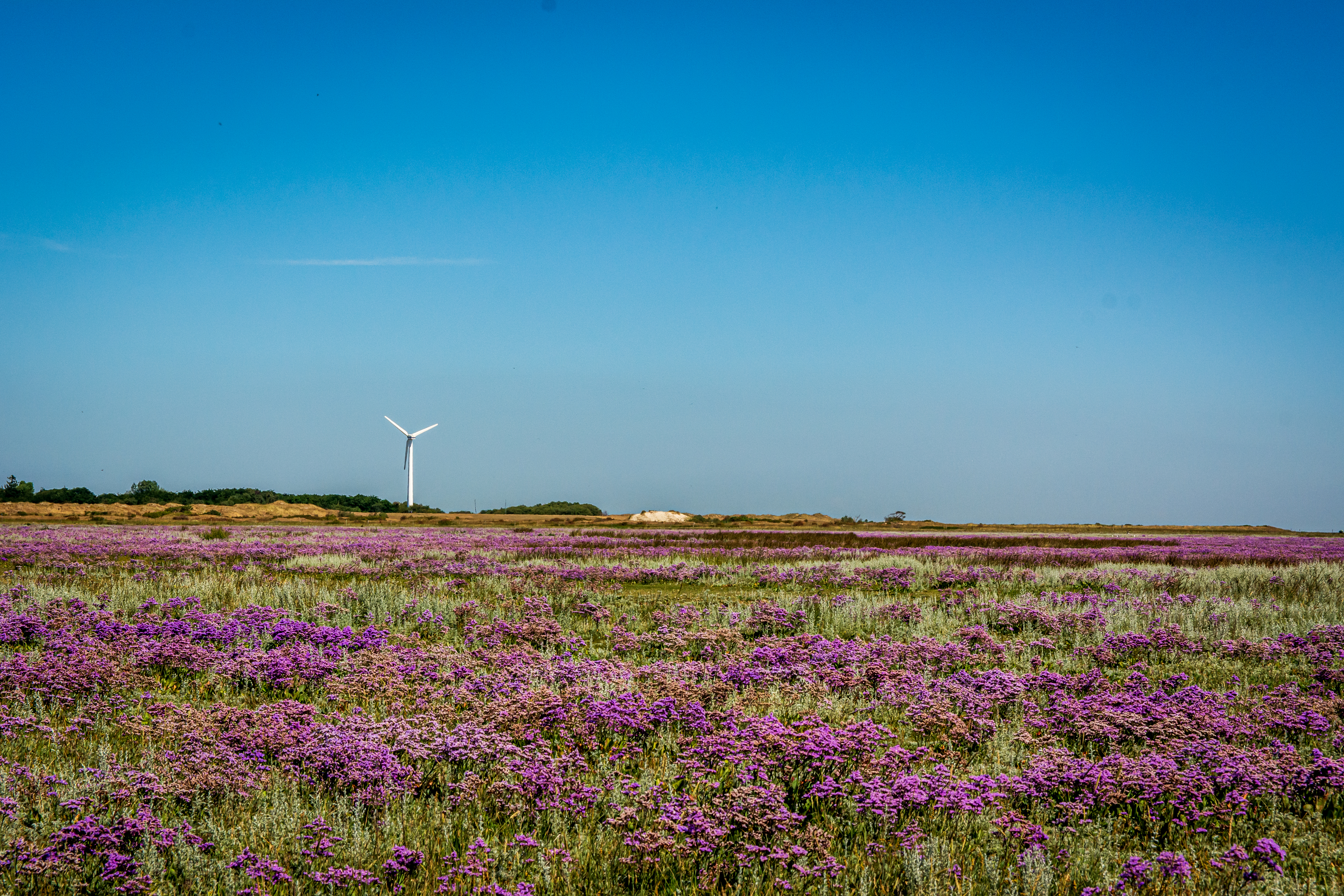 Ostergroen von Spiekeroog mit blühendem Strandflieder (Limonium vulgare) - Nationalpark Niedersächsisches Wattenmeer Blick von Stichweg nach Osten auf die Hermann-Lietz-Schule